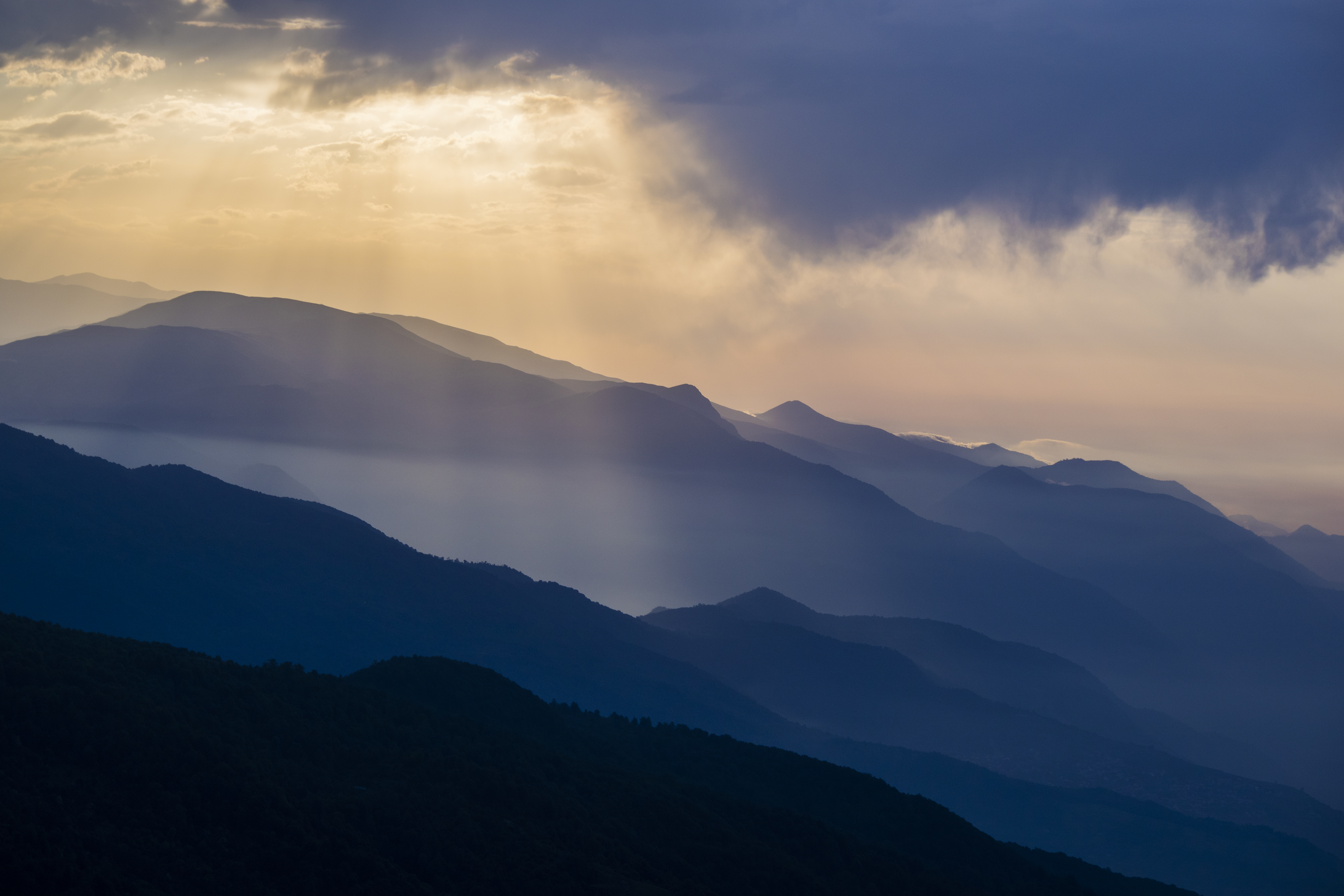 Filband is a village in bandpey district, Babol County, Mazandaran Province, Iran. At the 2006 census, its population was 8, in 4 families.